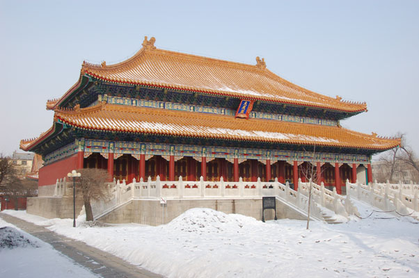 Harbin's Confucius Temple.